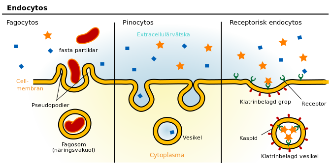 endocytos